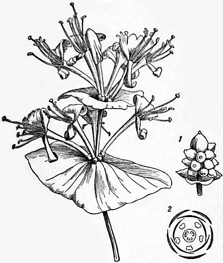 EB1911 Caprifoliaceae - Flowering shoot of Lonicera Caprifolium